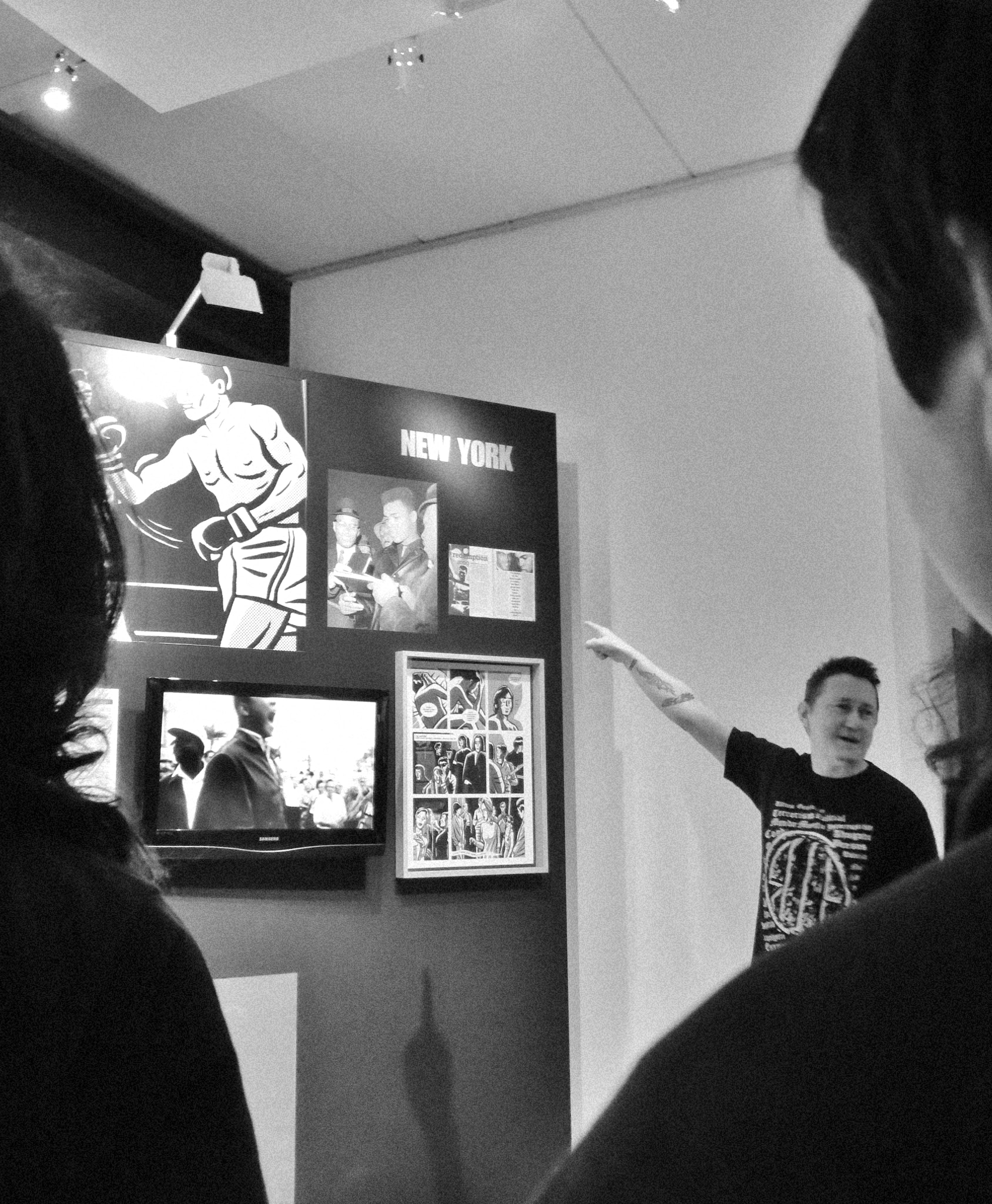 500px provided description: En el lanzamiento de Black is Beltza [#new york ,#black and white ,#exposition ,#museum ,#country ,#afro ,#blanco y negro ,#bilbao ,#bilbo ,#basque ,#euskadi ,#muhammad ali ,#fermin ,#euskal herria ,#martin luther king ,#euskera ,#alhondiga ,#kortatu ,#muguruza ,#black is beltza ,#negru gorriak]